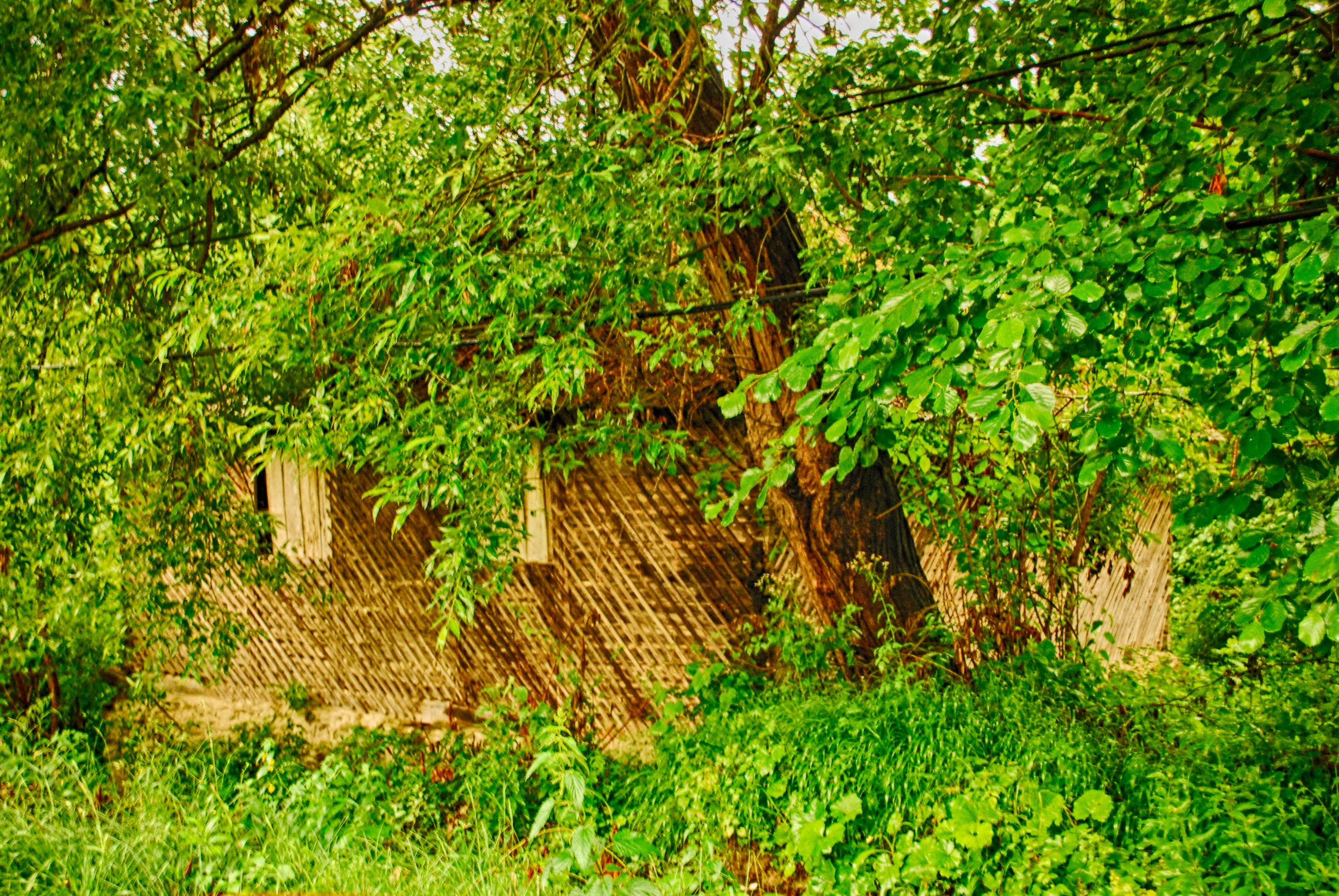 Water mill in Cătina, Buzău County, RomaniaRomână: Moară de apă în Cătina, județul Buzău, România